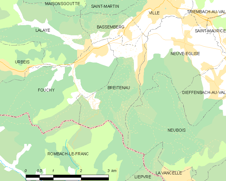 Map of French municipality